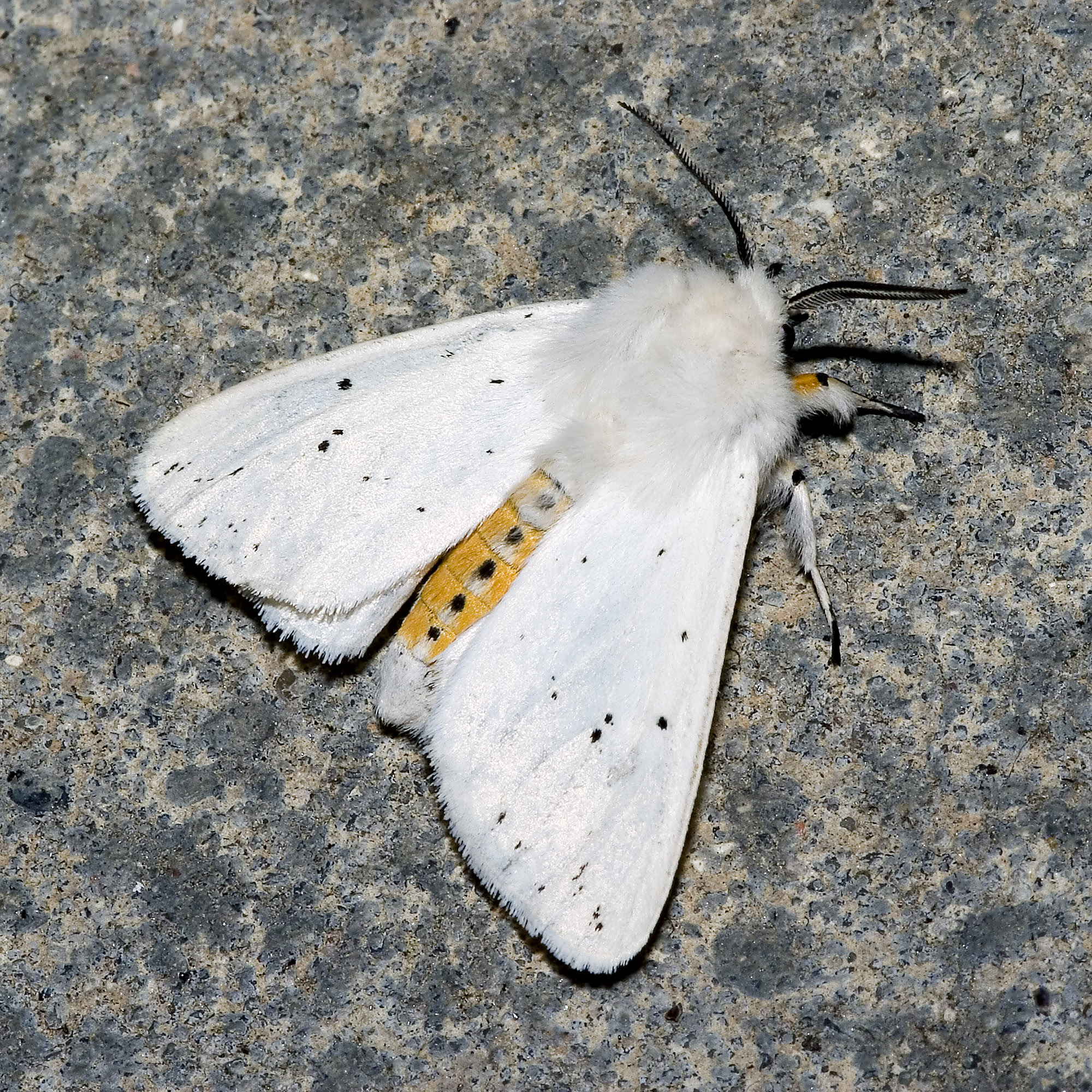 White Ermine; Spilosoma lubricipedum (Linnaeus, 1758)